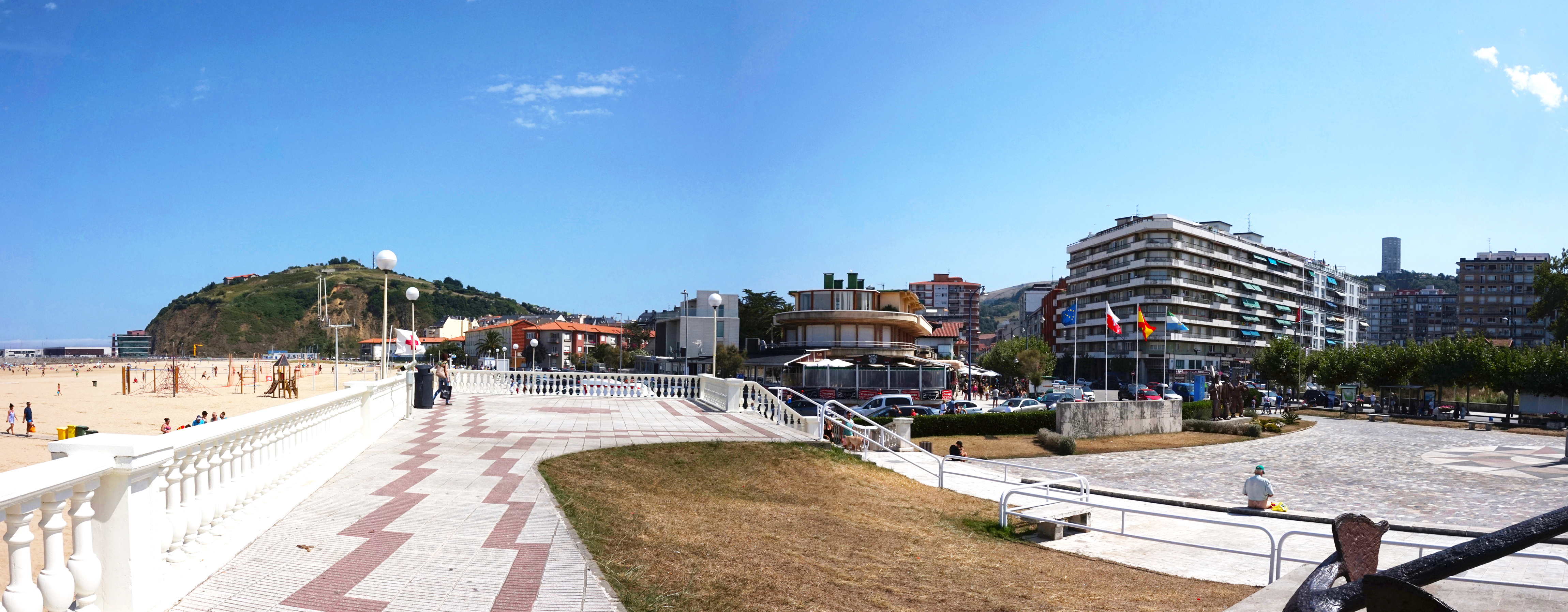 Laredo, Spain.This photograph was taken with a Sony ILCE-5000